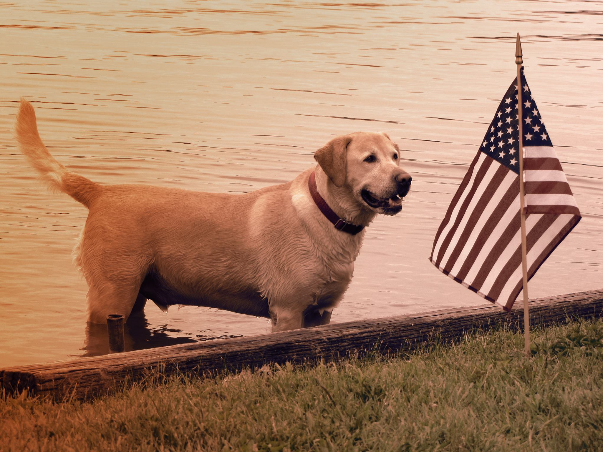 A yellow Labrador retriever standing in the lake near an American flag during Independence Day celebrations in northern Indiana